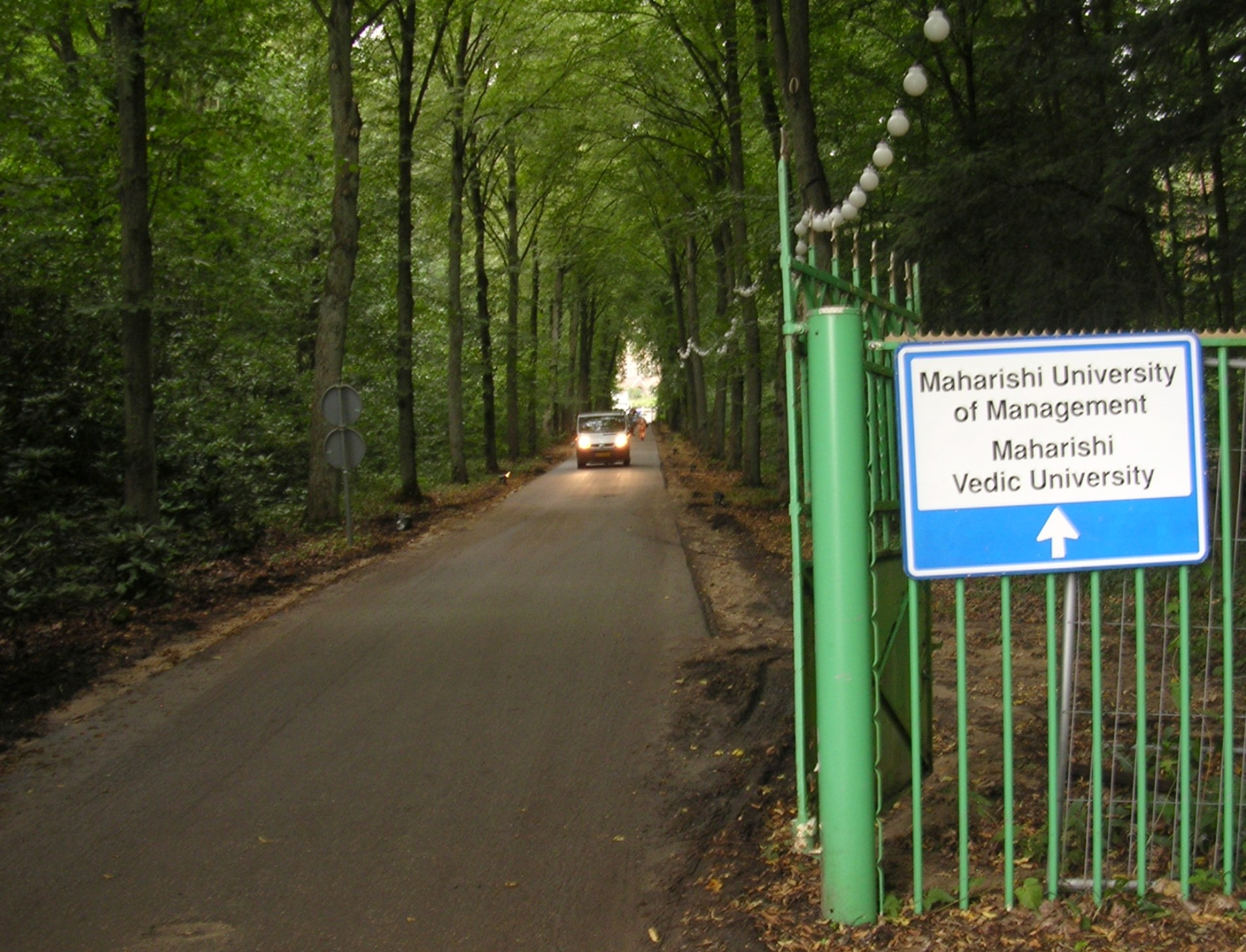 Photo of Maharishi Vedic University in Holland.